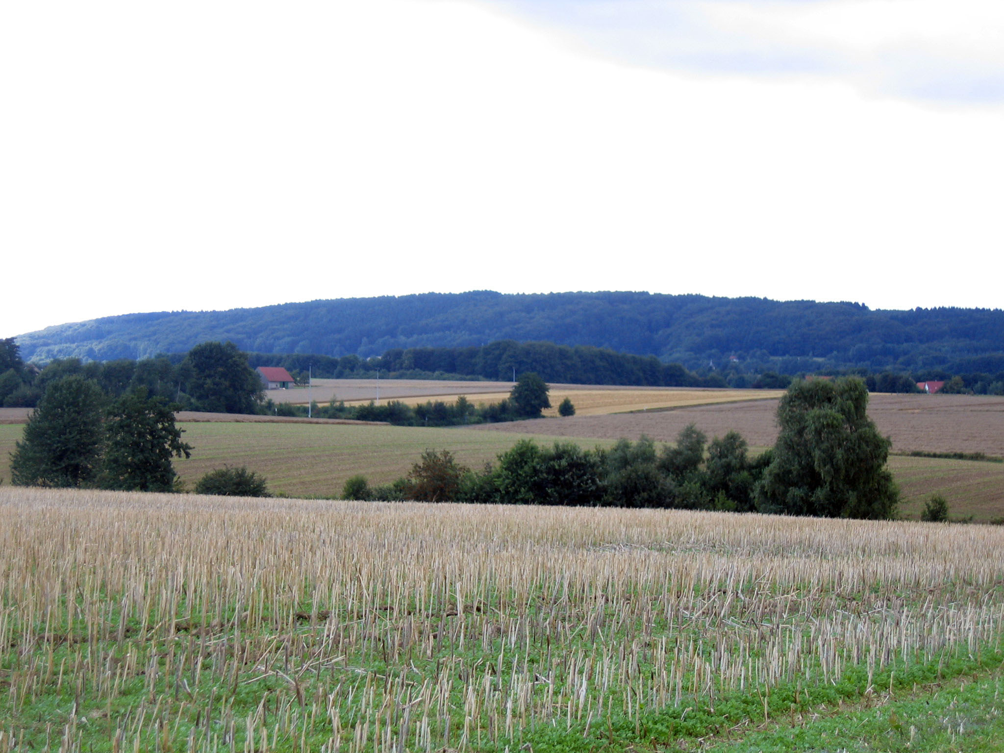 Picture shows the Nonnenstein, a mountain in the Wiehengebirge in the town of Rödinghausen, Germany.